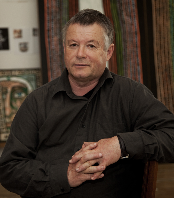 Nigel Brown in his studio, 2011, Southland, New Zealand